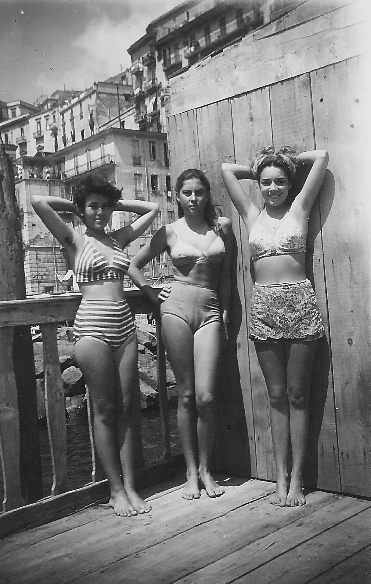 Young local women in swimsuit, Naples, Italy.